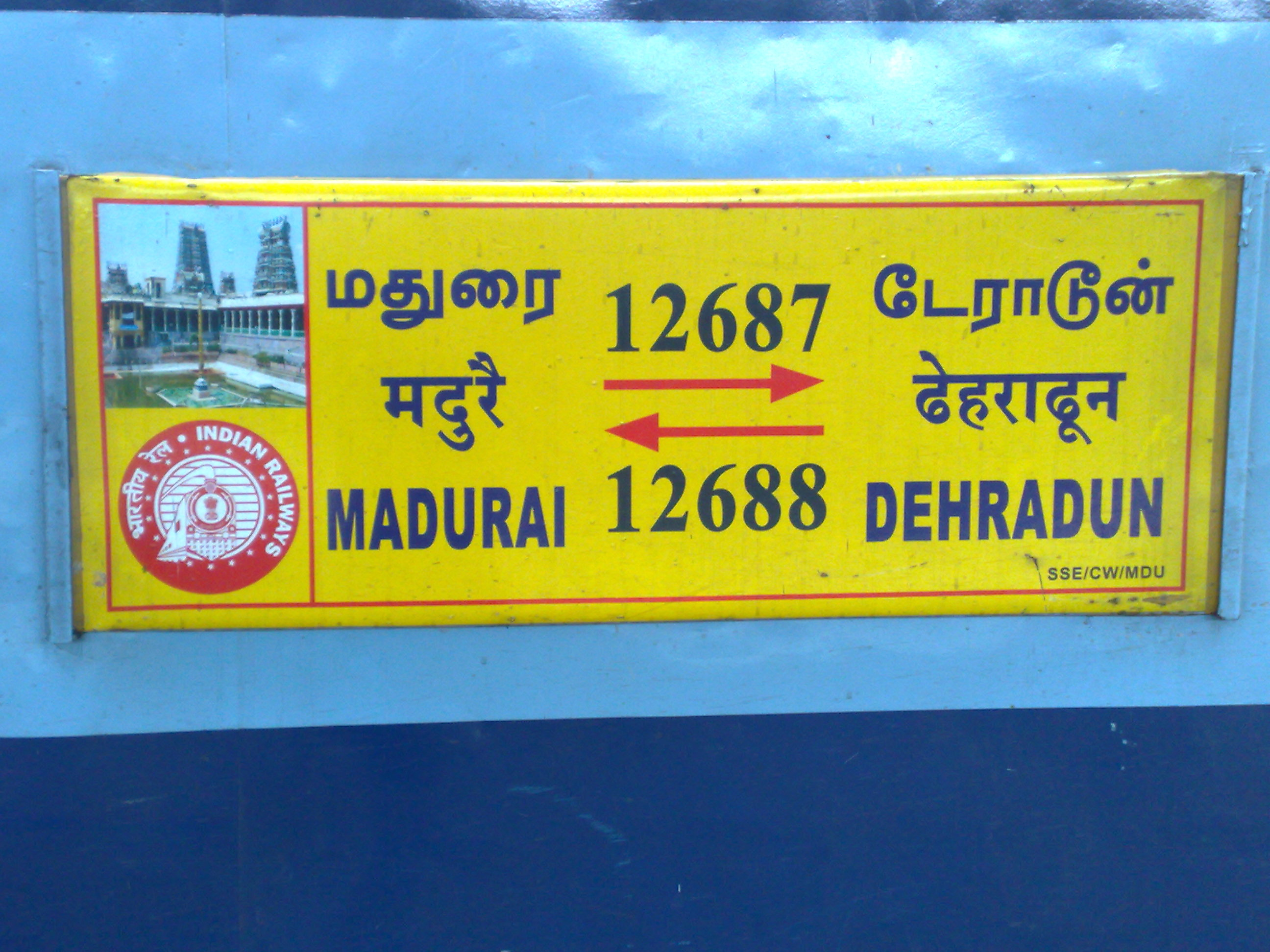 12688 Dehradun Chennai Express